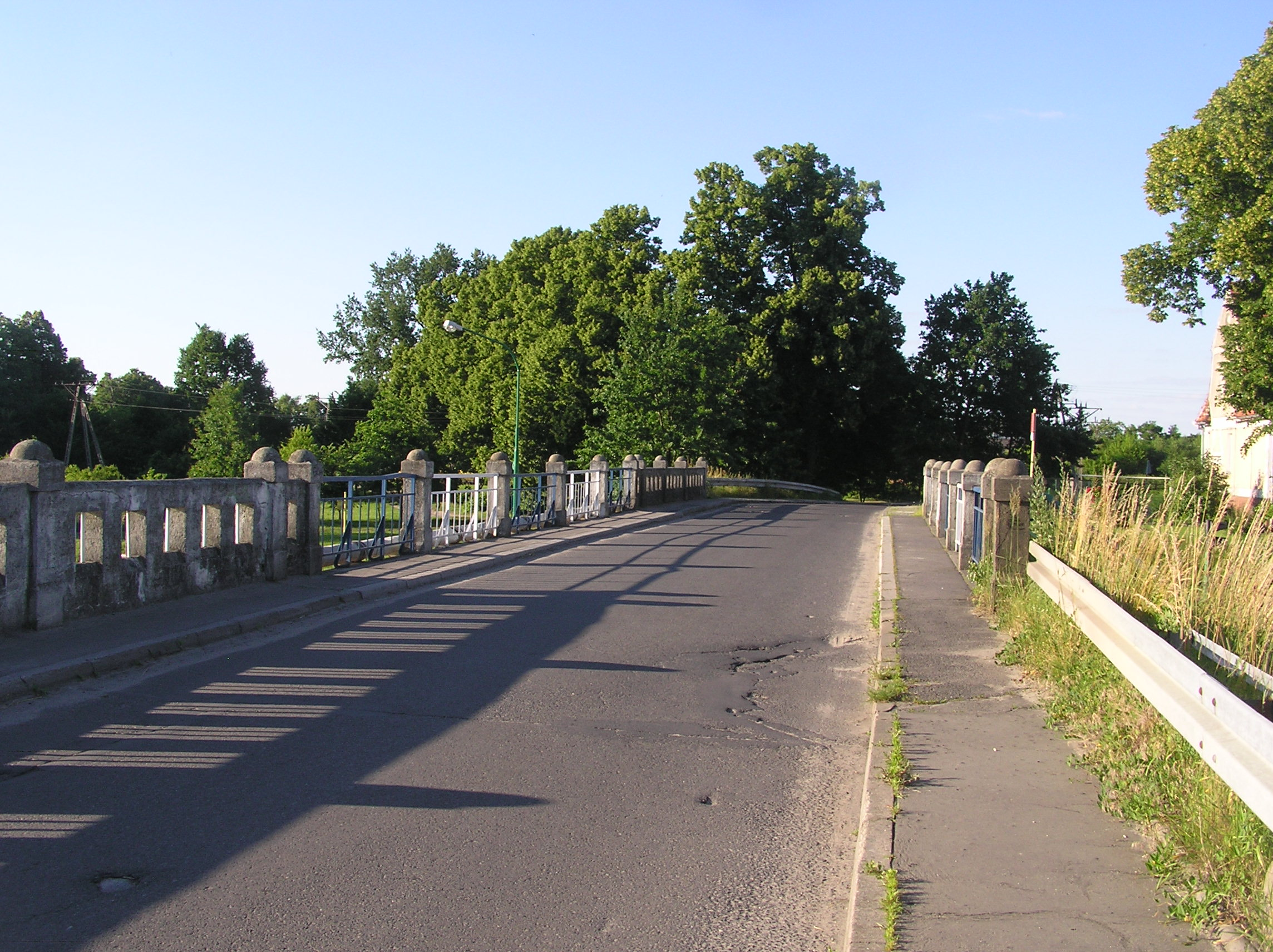 Oława II Lock